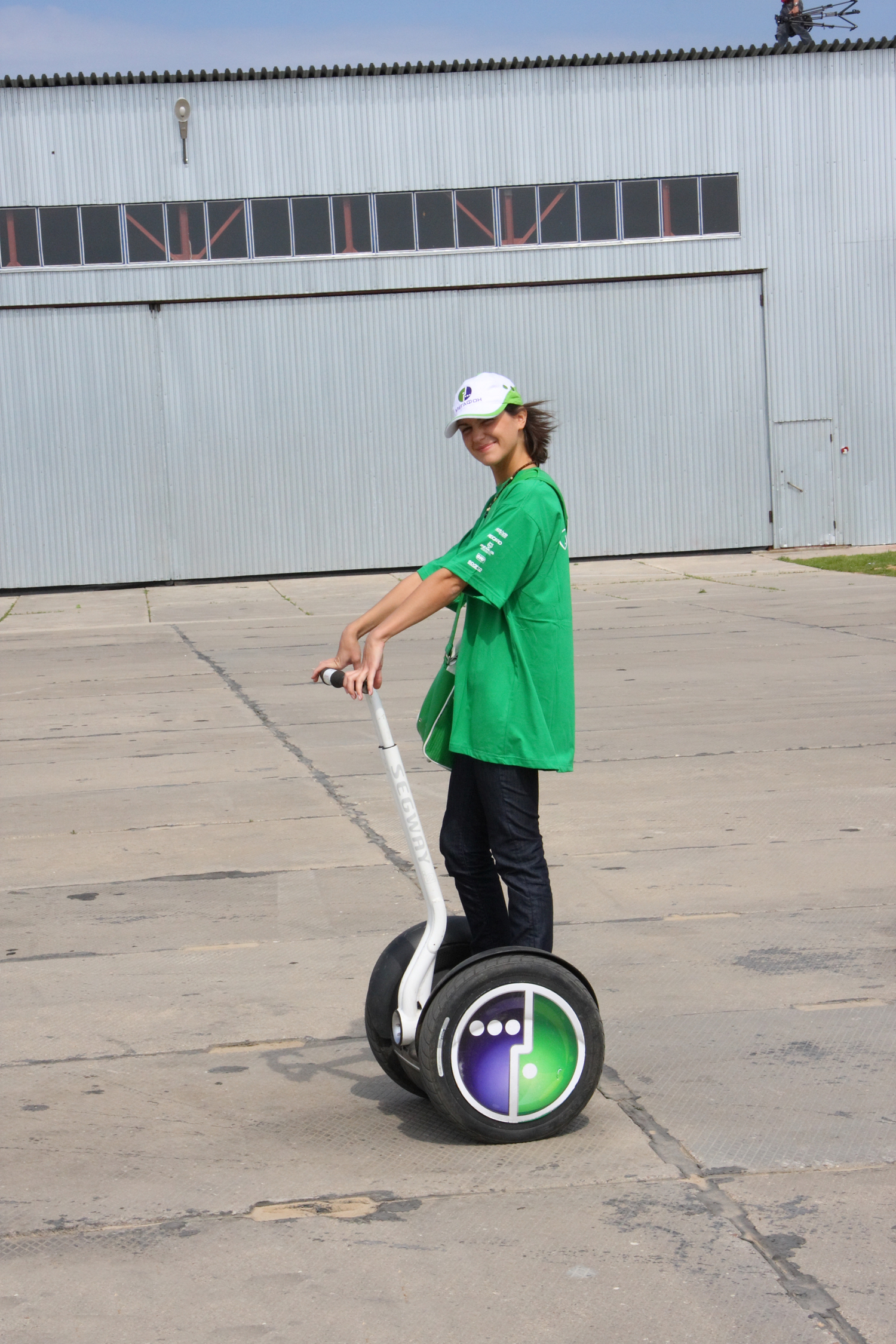 Megafon girl